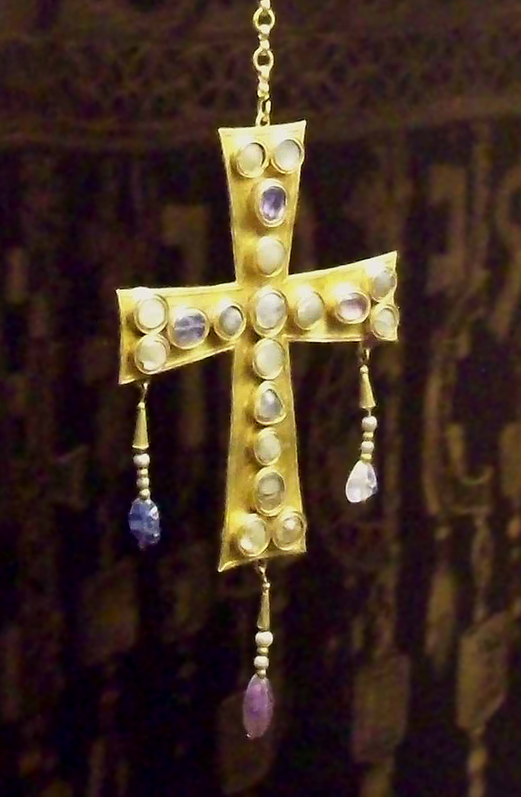 Visigothic votive cross, part of the so-called Treasure of Guarrazar.